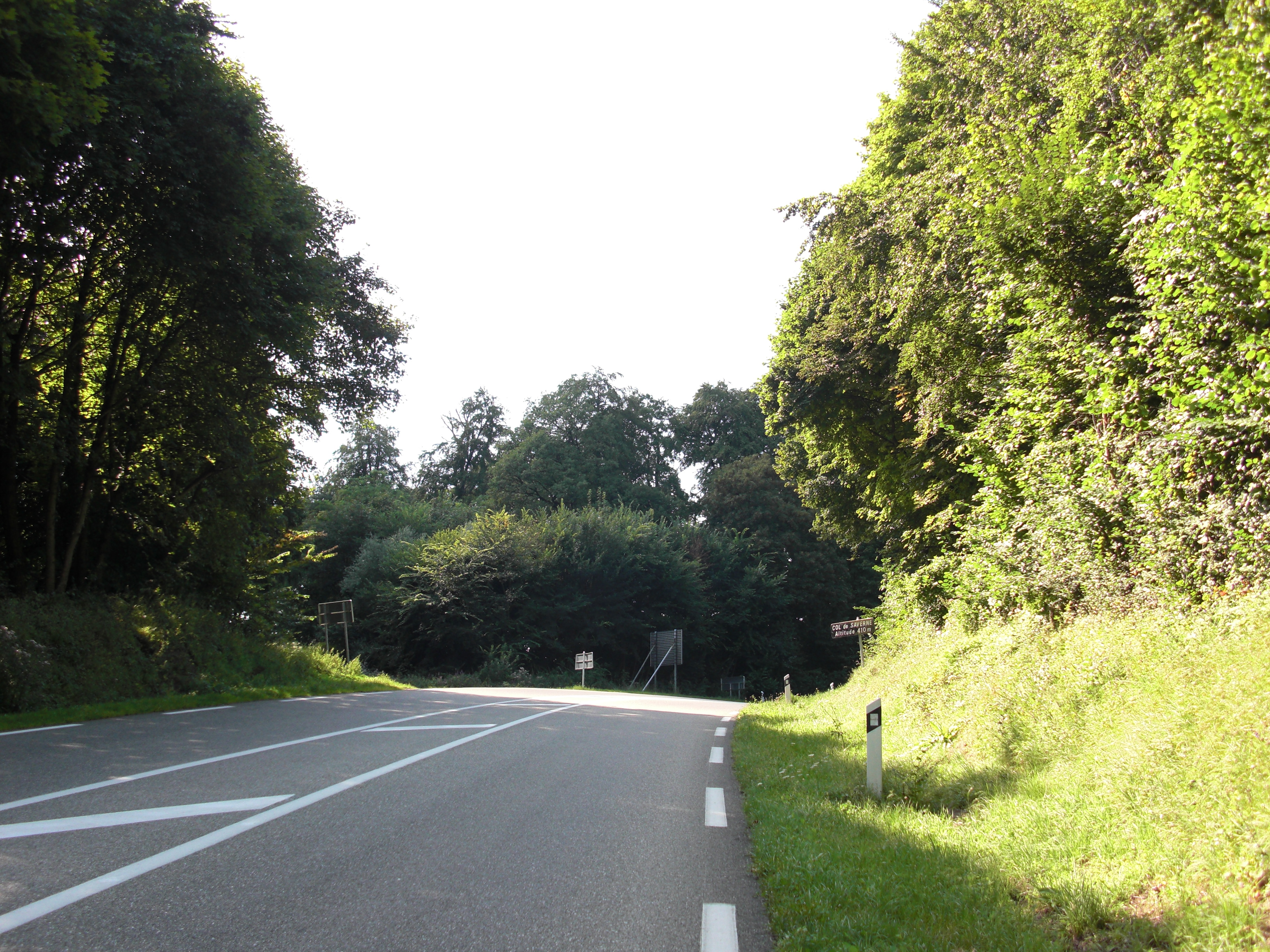 Col de Saverne: Pass summit